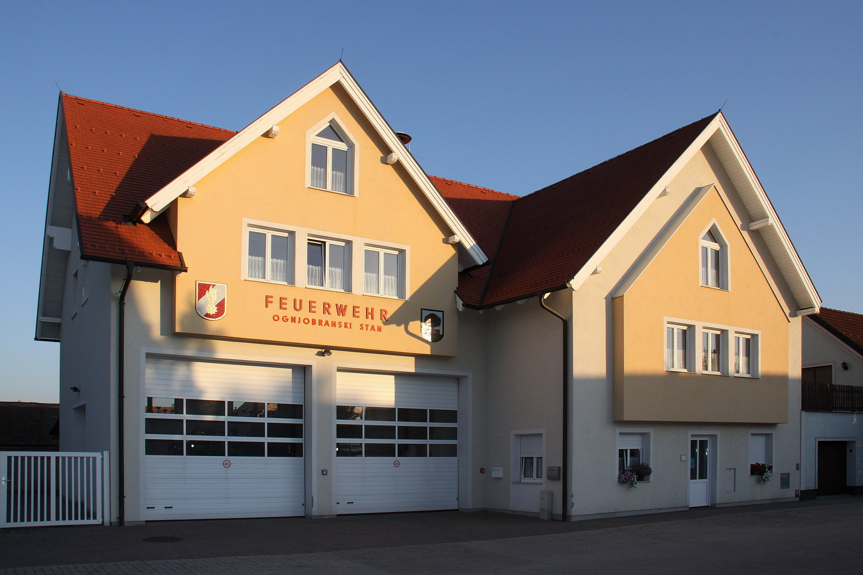 Fire station - Baumgarten Object location47° 44′ 18.26″ N, 16° 30′ 03.35″ E